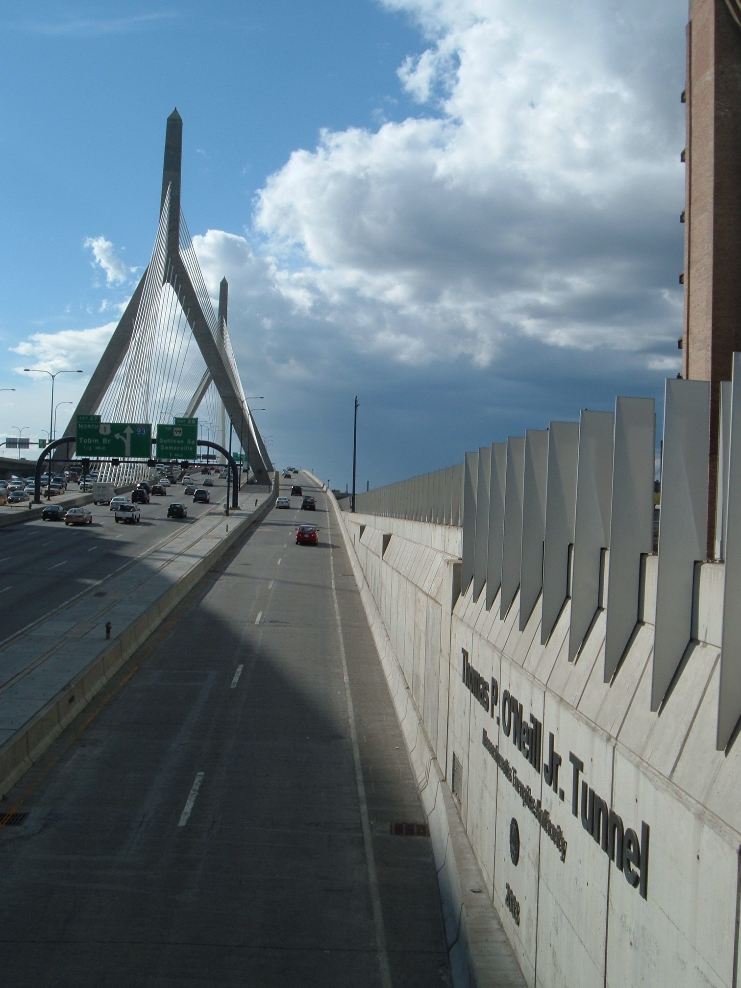 Traffic exiting the Thomas P. O'Neill Jr. Tunnel onto thew:Leonard P. Zakim Bunker Hill Memorial Bridge. Taken from Causeway Street, Boston, Massachusetts at about 4 pm on a Friday.